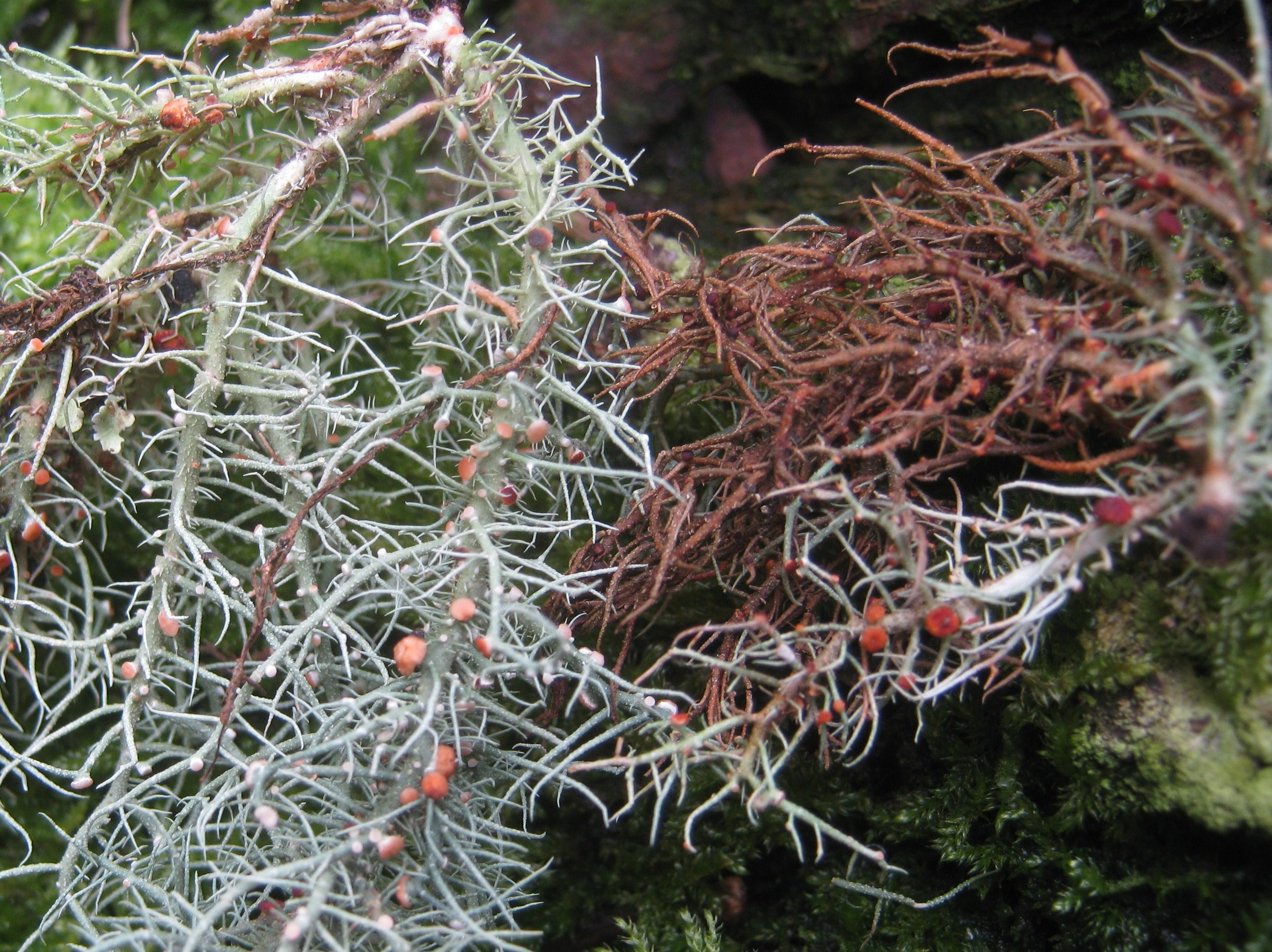 Biatoropsis usnearum Räsänen Image location: Serra de Montejunto, Portugal From the same place that observation 160716. This is one of the few basidiomycete (Tremellales) considered in the category of the so-called “Lichenicolous fungi”. It is characterized by having an Usnea sp. as host (U. rubicunda in this case) and consists of pink-orange-brown galls developing on the branches of the host. There is another rarer similar species and not so widespread, Cystobasidium usneicola, which also developes on Usnea spp.. Recognized by sight For more information about this, see the observation page at Mushroom Observer.